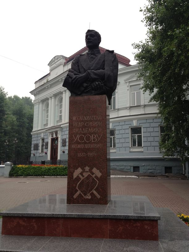 Mikhail Usov Statue in Tomsk